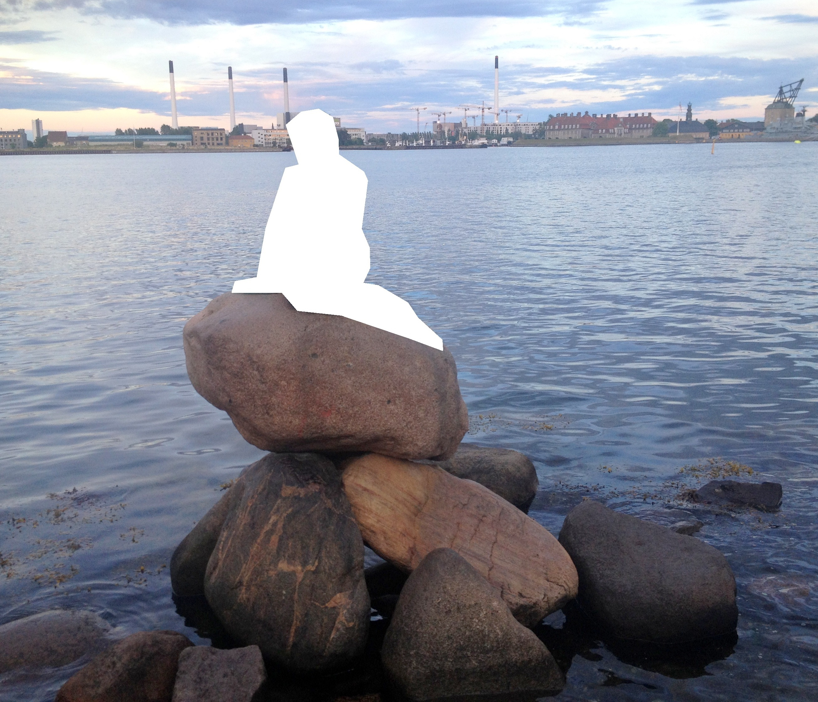 Statue of the Little Mermaid (Copenhagen): no FoP in Denmark.